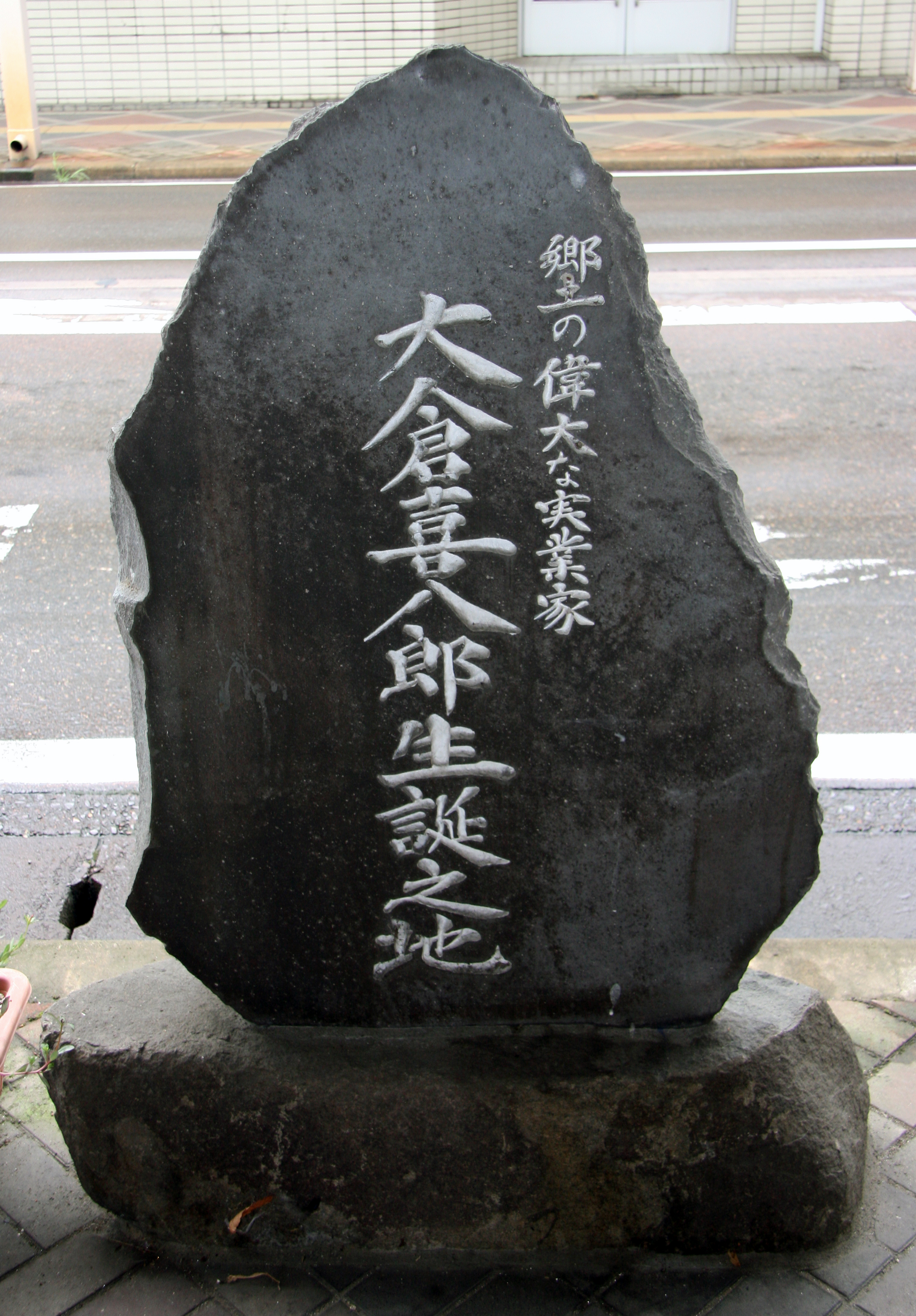 an epitaph on the tombstone of Okura Kihachiro in Shibata, Niigata